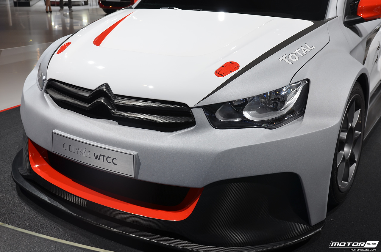 IAA Frankfurt 2013: Citroen C-Elysee WTCC / Photo: Raphael Jahn ______________________ Please feel free to use this image for FREE under the Creative Commons (CC) licence. However, if you use the image, pls set a backlink to and give credit as following: "Image: ". For highres images or any other inquiries pls contact mailto: . Thanks.